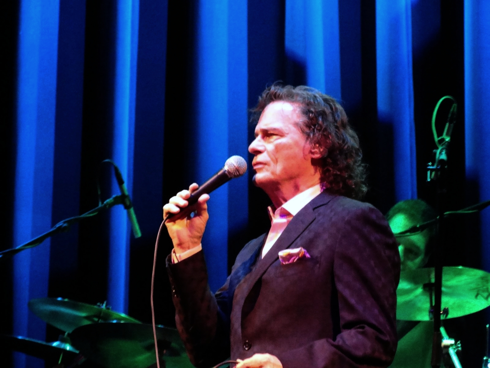 B J Thomas--1960s-70s Pop Singer performing at The Showcase, in Foxboro, Mass. on Dec. 15, 2012.